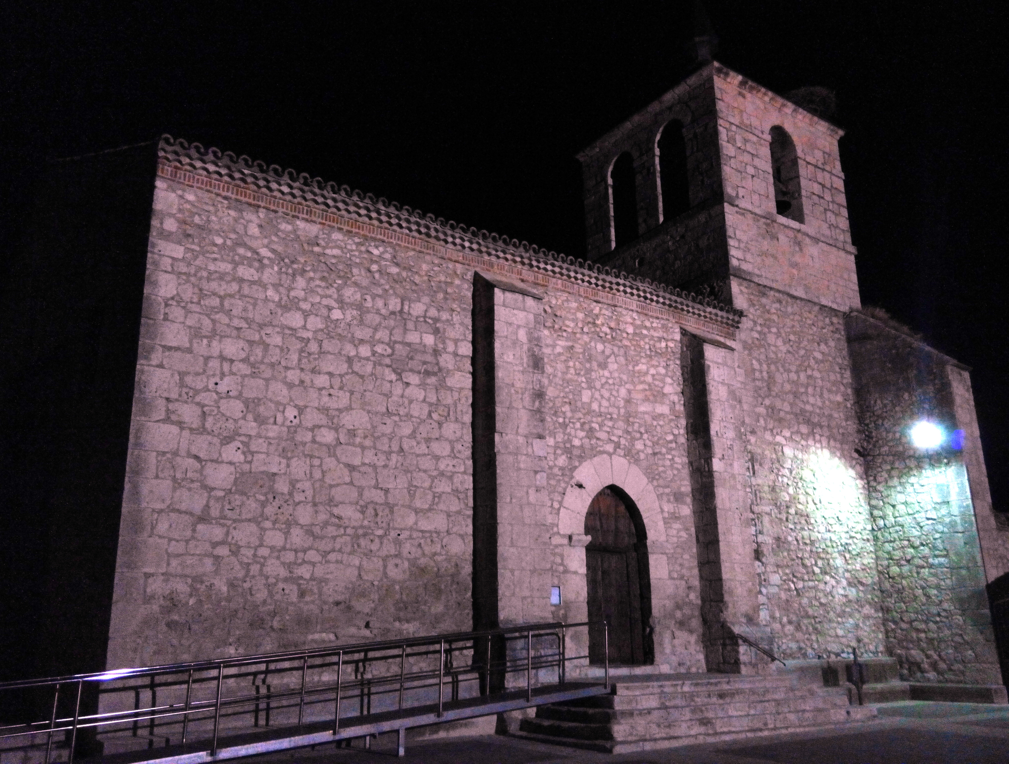 Church of St. Mary in Íscar, Valladolid, Spain.